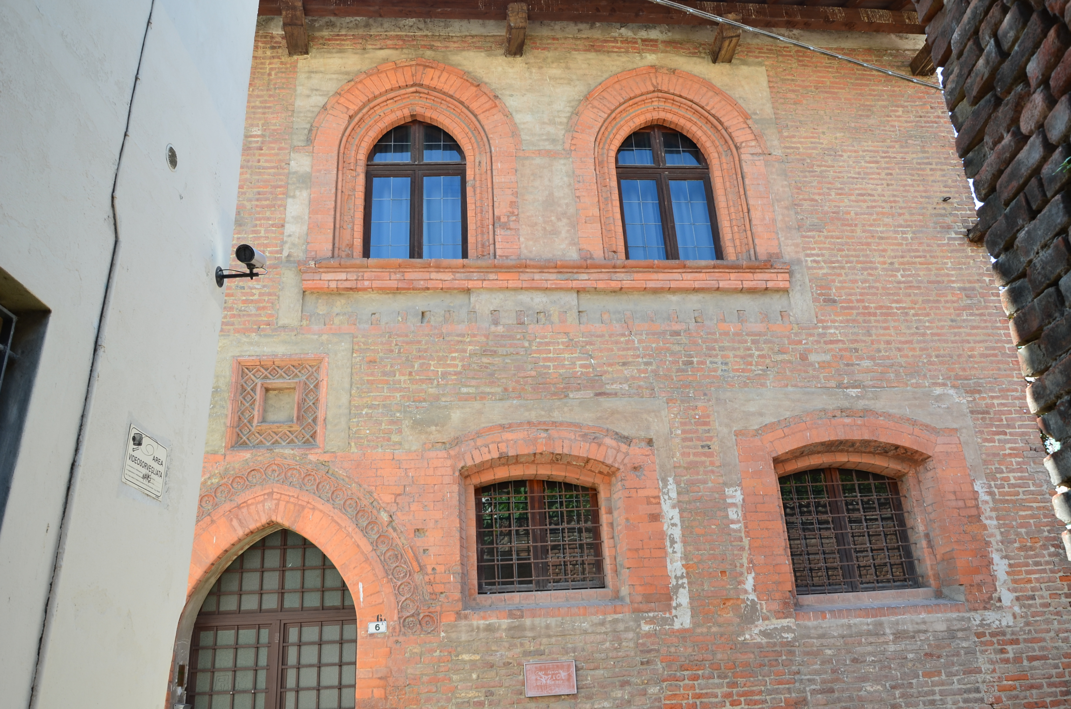 This is a photo of a monument which is part of cultural heritage of Italy.